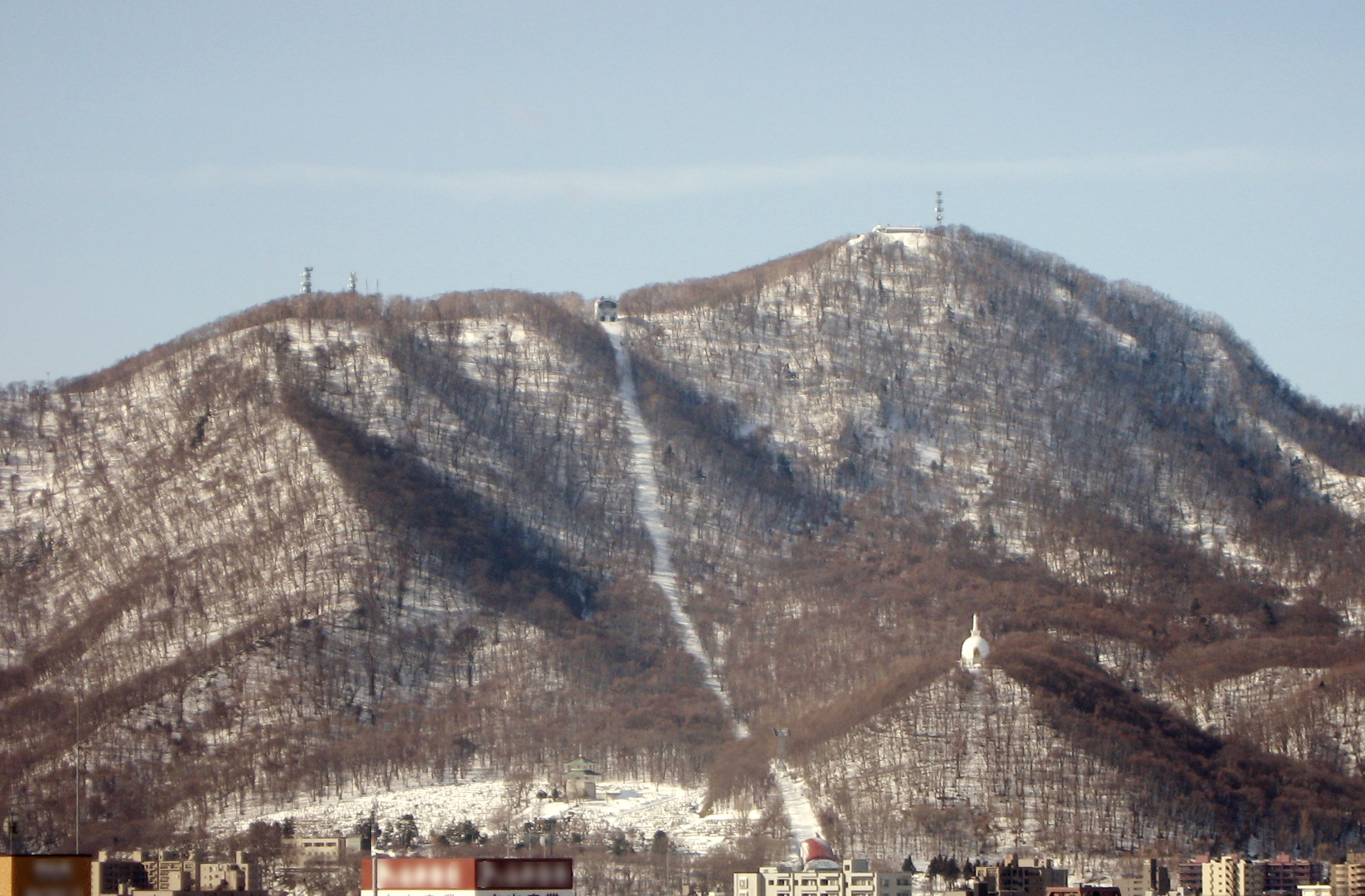 Mount Moiwa in Sapporo, Hokkaido, Japan. Seen from South 8 West 5, Chuo-ku, Sapporo